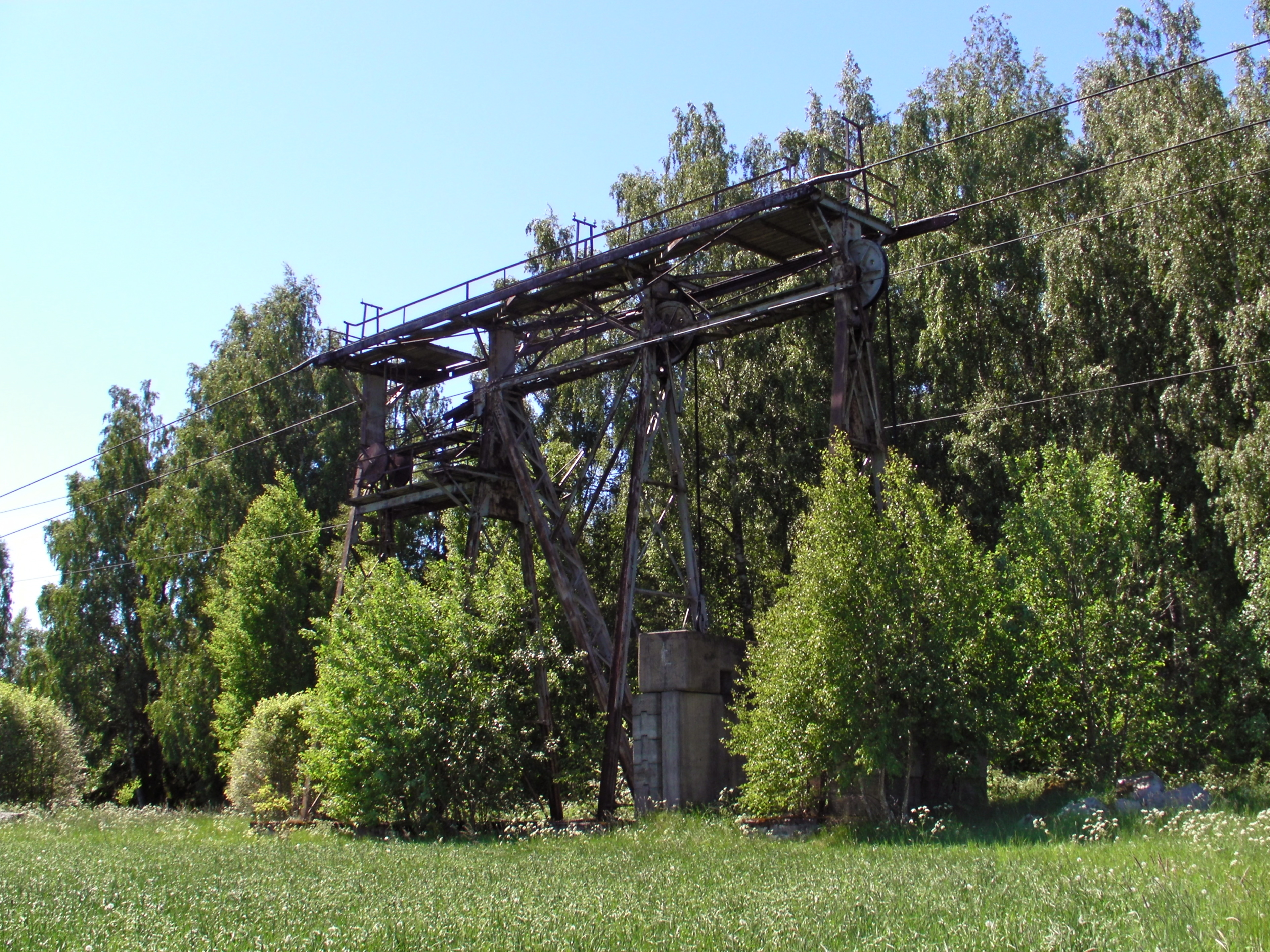 Forsby-Köping limestone cableway, transporting limestone for cement production between 1941-1997, presently the world's longest ropeway.